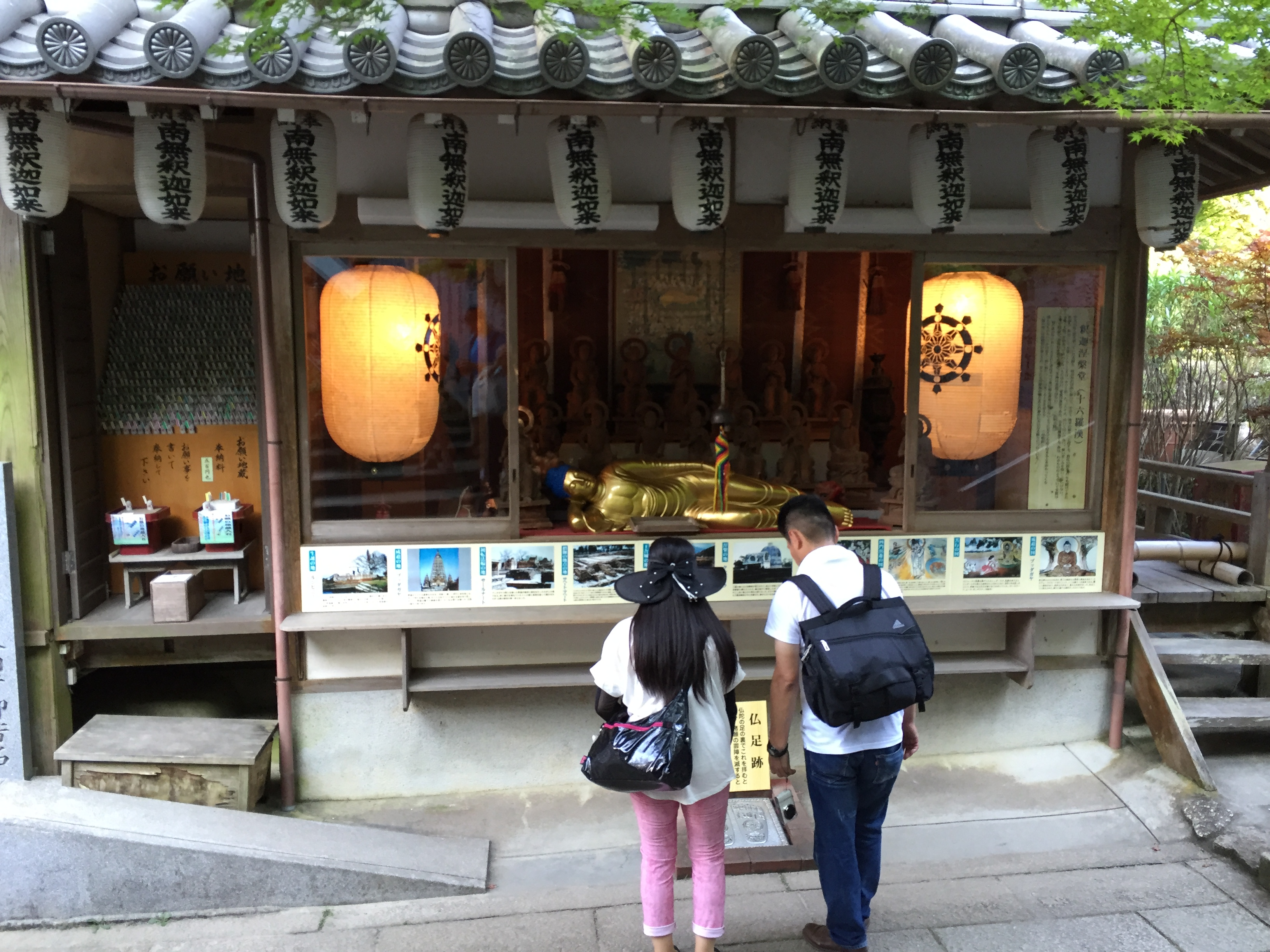 Buddhas Nirvana, Daishō-in, Miyajima